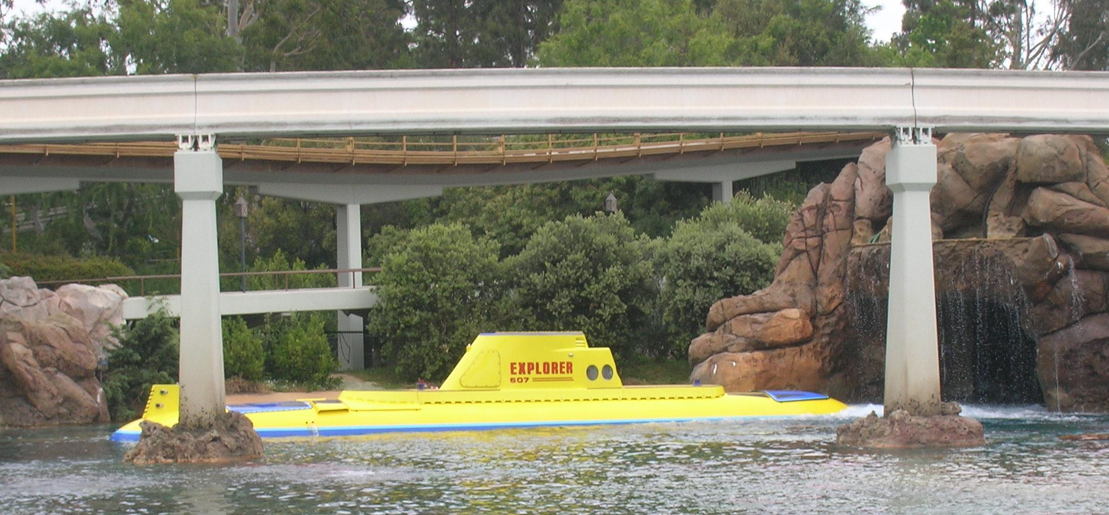 Submarine of the Finding Nemo Submarine Voyage at Disneyland Park, Anaheim, California, USA